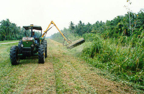 Cutting grass using a John Deere tractor with side trimmer (flail mower) at Asajaya Drainage Project, Sarawak.